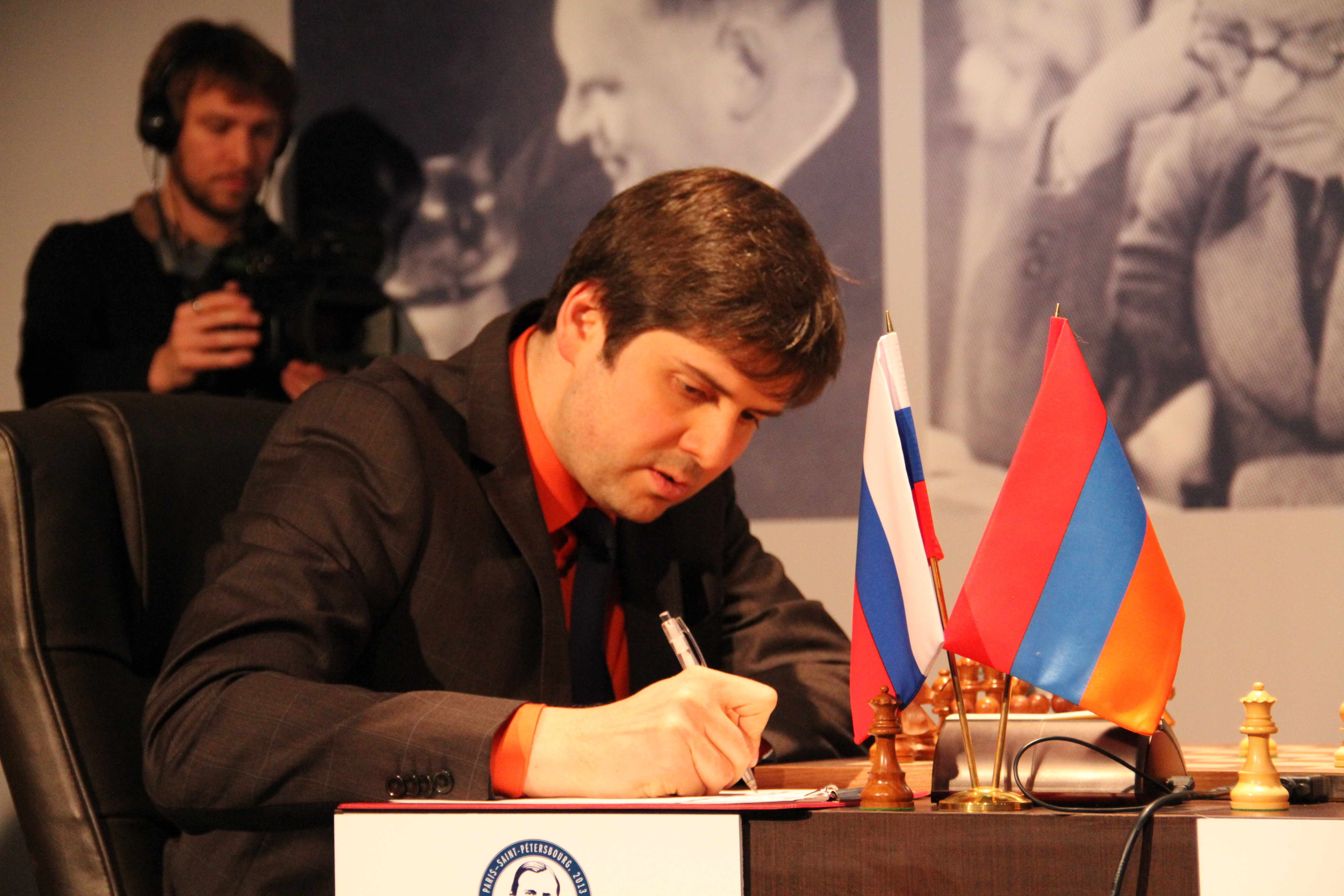 Peter Svidler en 2013 au Mémorial Alekhine, avant sa partie contre Levon Aronian.